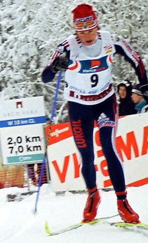 Svetlana Nageykina (1965), Russian cross country skier (cropped from File:Bjoergen-Nagejkina-2006.jpg)